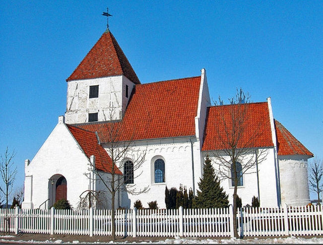 Branderslev Church on the Danish island of Lolland. Derivative file with cropping and removal of caption.